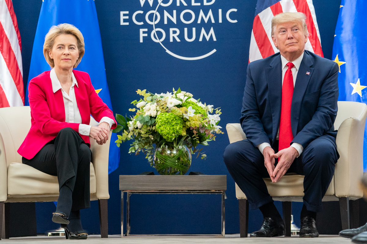 President Donald J. Trump meets with the President of the European Commission Ursula von der Leyen during the 50th Annual World Economic Forum meeting Tuesday, Jan. 21, 2020, at the Davos Congress Centre in Davos, Switzerland. (Official White House Photo by Shealah Craighead)